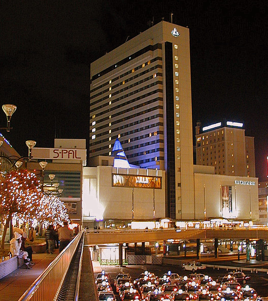 Hotel Metropolitan Sendai viewed from a pedway in front of Sendai station west exit